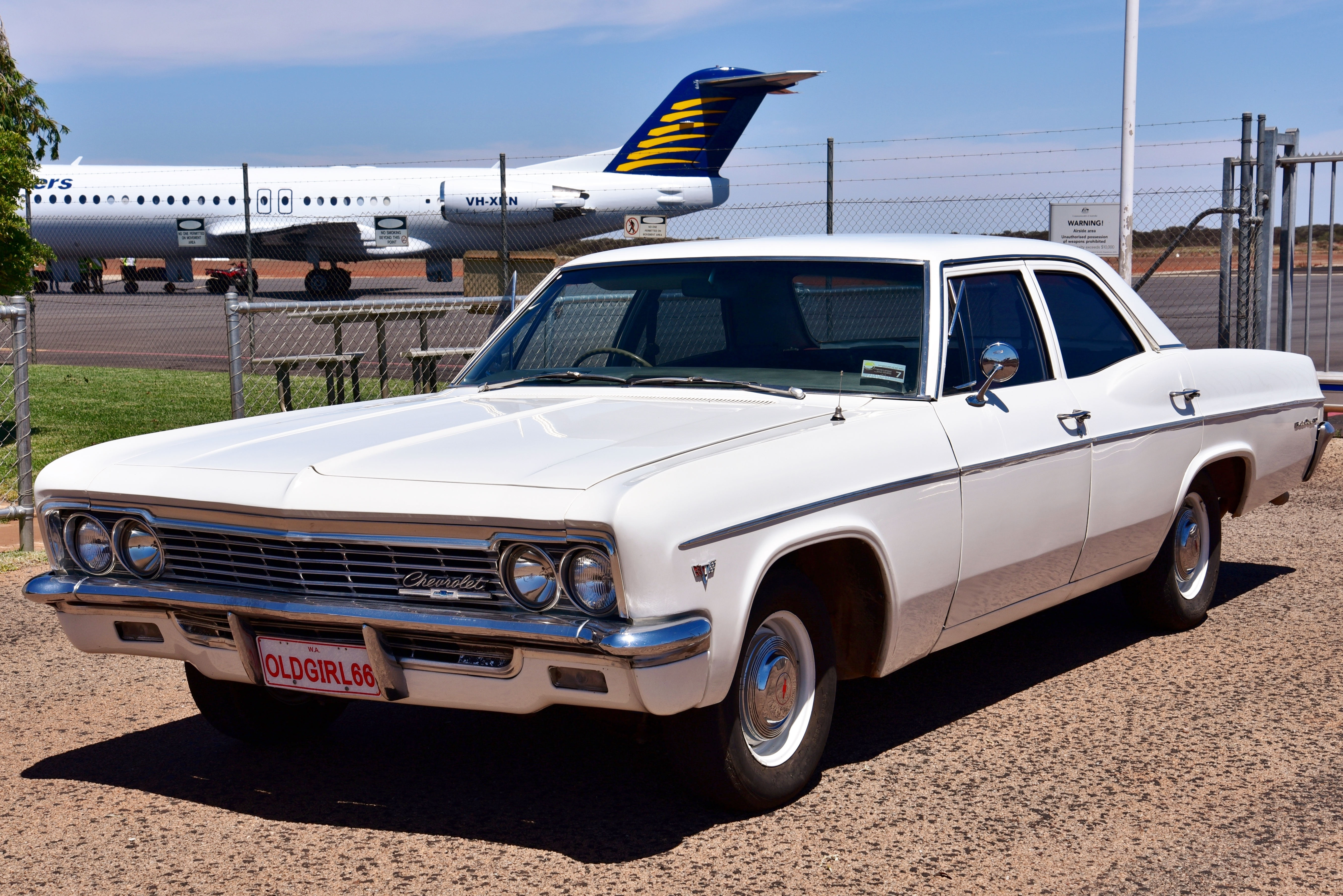 An obviously much appreciated 1966 Chevrolet Bel Air sedan, at Leonora Airport in outback Western Australia - note that it has been converted to Right Hand Drive